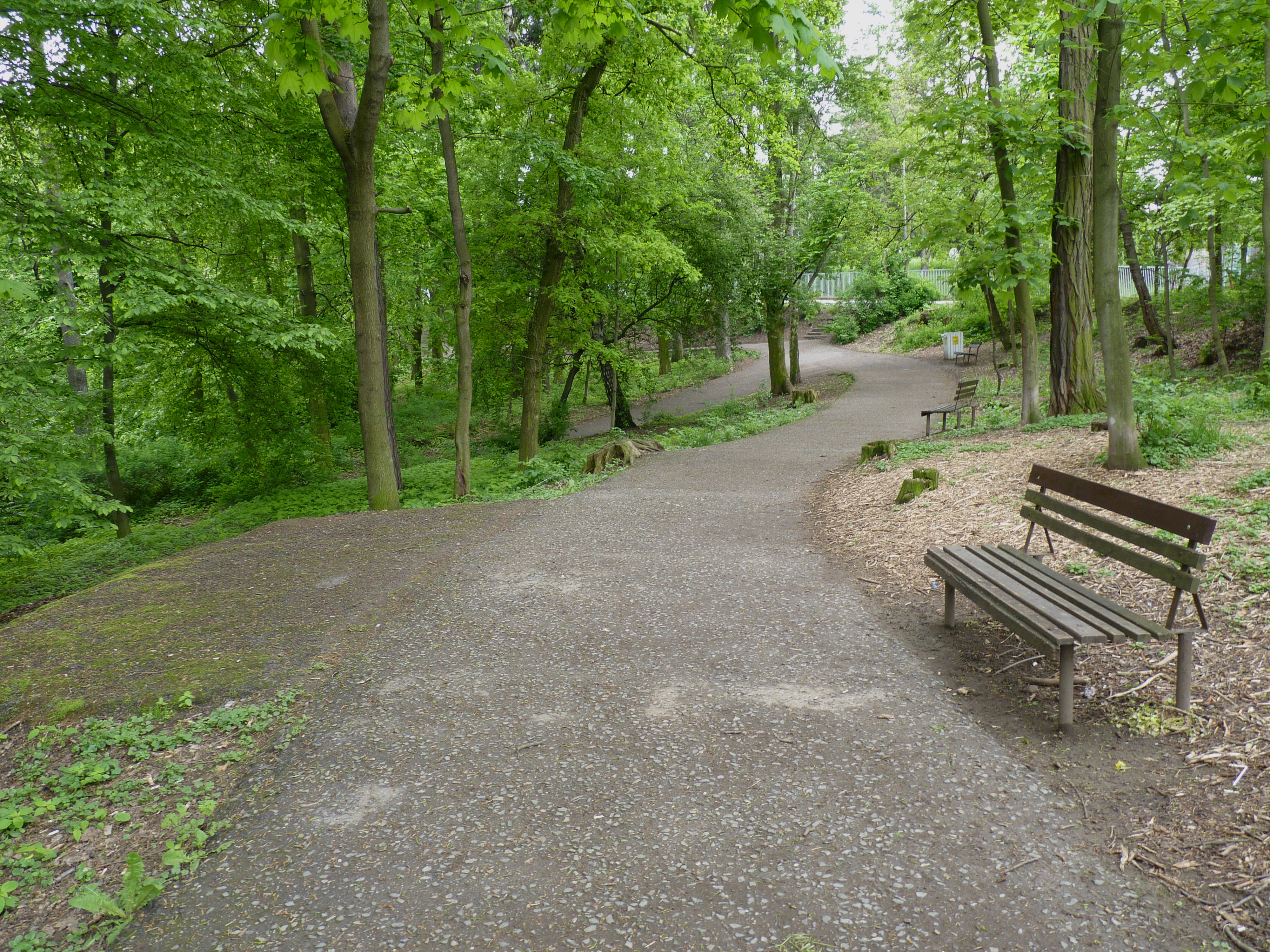 Willson's wood/park in Brno